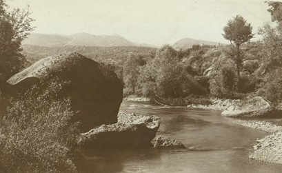 Bulgaria